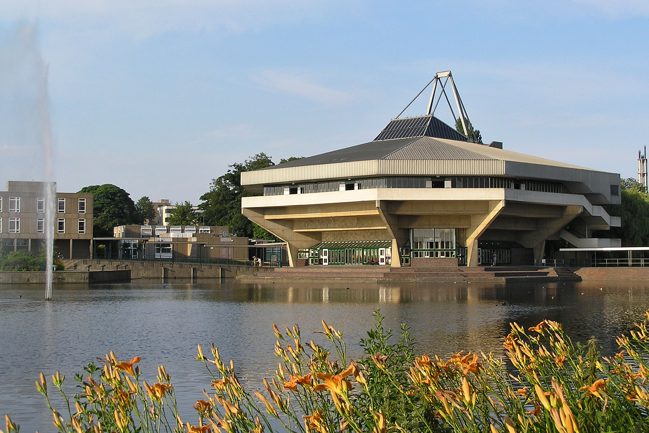 The University of York's Central Hall, as seen from under lecture theatre P/X001 in the Physics Department. Photo taken 23 September 2004.